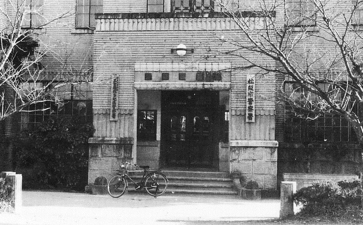 Matsusaka City Municipal Police Station